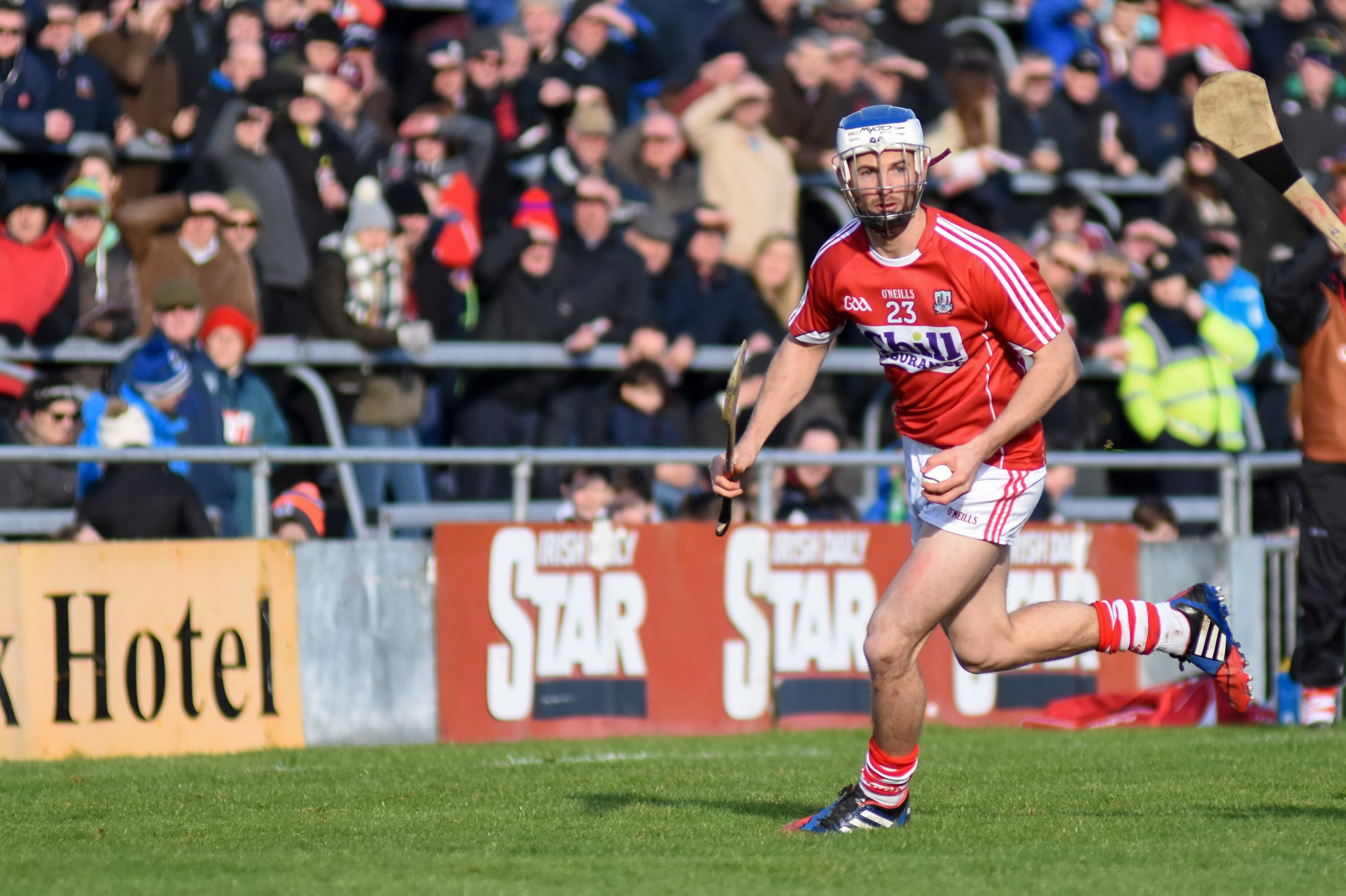 Luke O'Farrell in action for Cork against Galway in the 2016 National Hurling League at Pearse Stadium